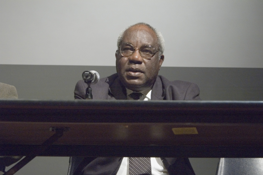 Julius Chambers at a program on civil rights protests at the Sonja Haynes Stone Center for Black History and Culture at the University of North Carolina at Chapel Hill